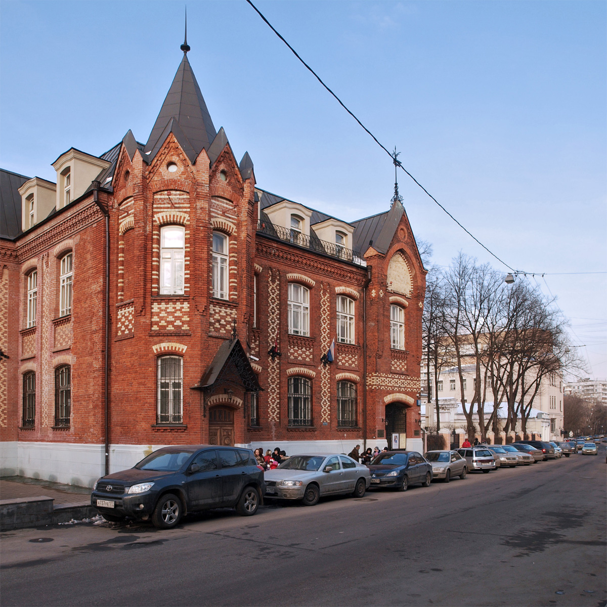 Gorokhovsky Lane, Moscow - Andriyaka School of Watercolours